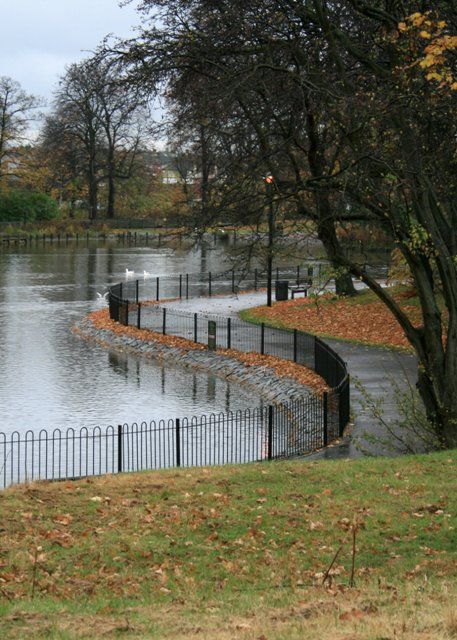 West Bank of the Lower Lake, Albert Park Albert Park was donated to Middlesbrough by local ironmaster Henry Bolchow. It was opened in 1868 and named after Prince Albert the late husband of Queen Victoria.